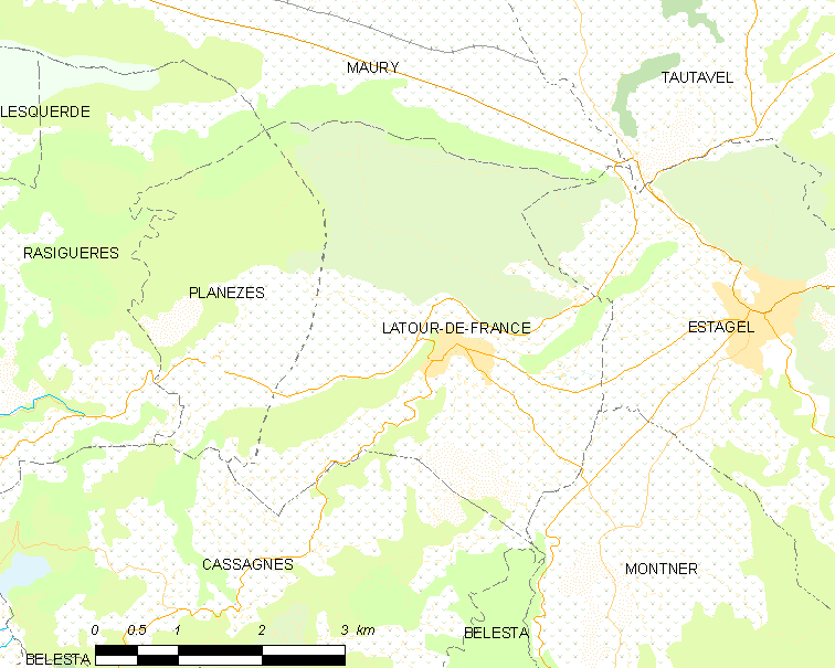 Map of French municipality